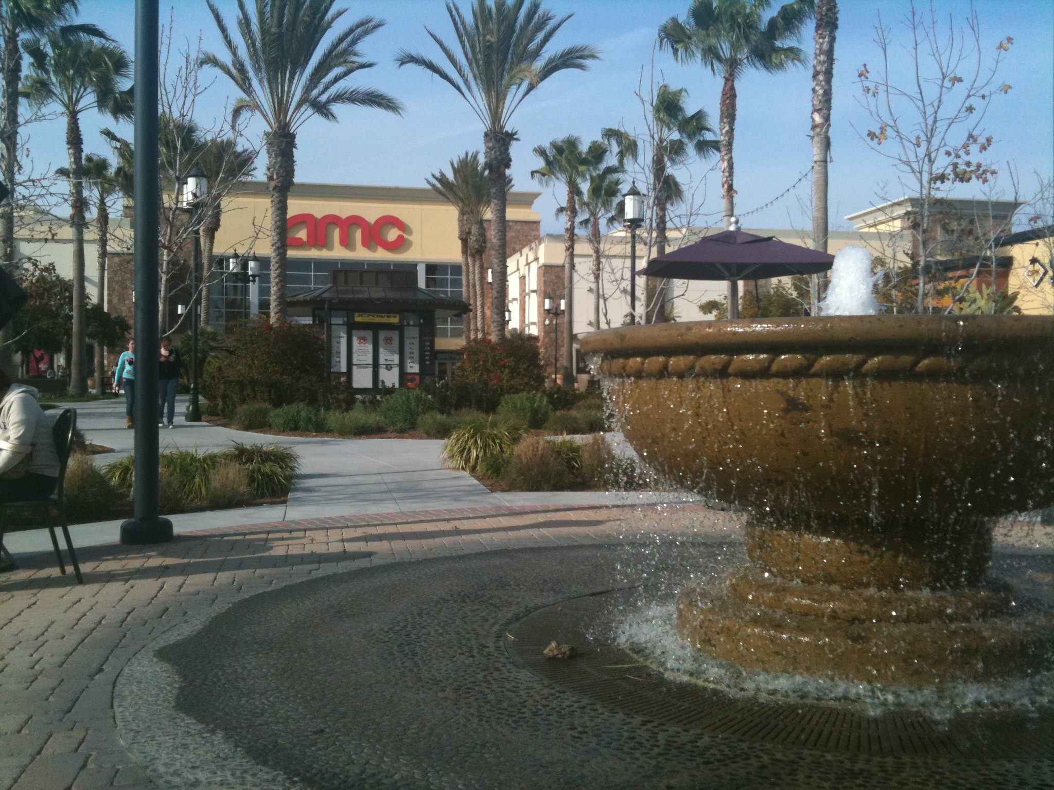 AMC at Otay Ranch Town Center mall in Chula Vista, CA